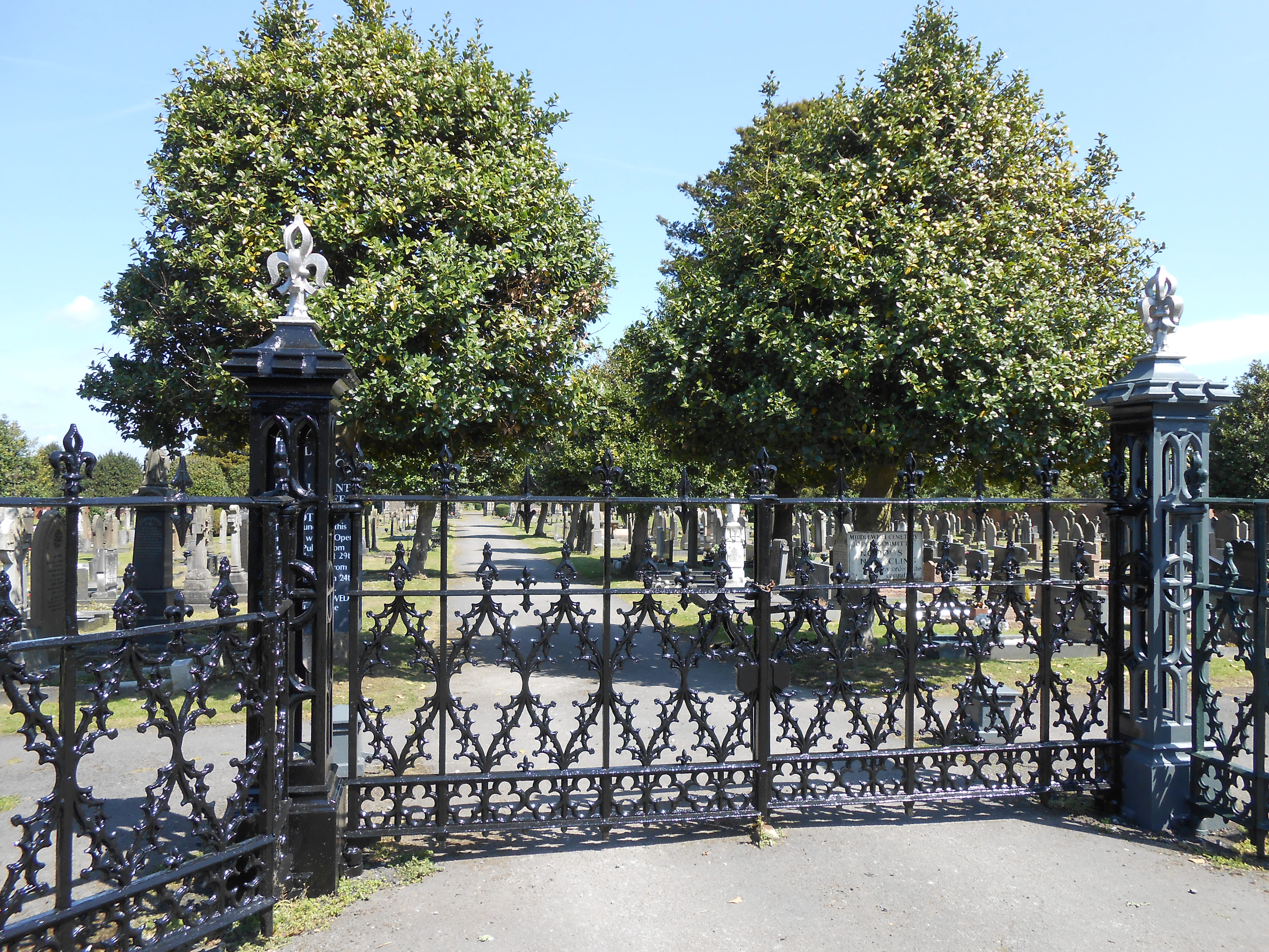 Middlewich Cemetery gates, Cheshire, England. Cast by Button of Crewe.